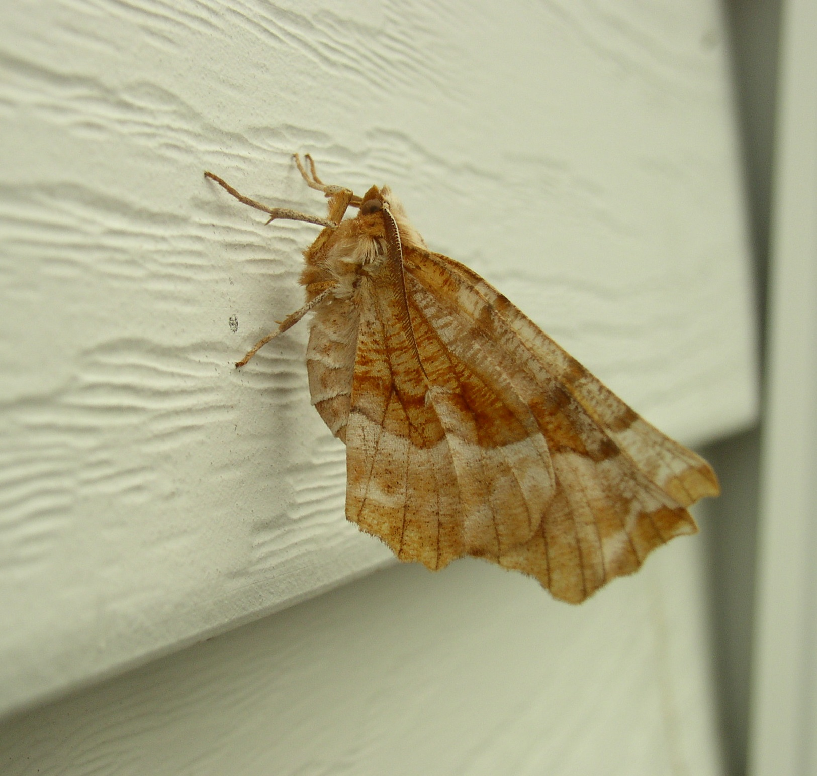 Geometrid moth, Selenia kentaria (Kent's Geometer - Hodges#6818), male. Claryville, Catskill Park, Ulster County, New York, USA.